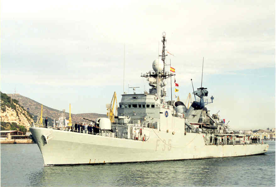 The corvette ' ' Cazadora' ' (F-35), leaving the Arsenal of Cartagena